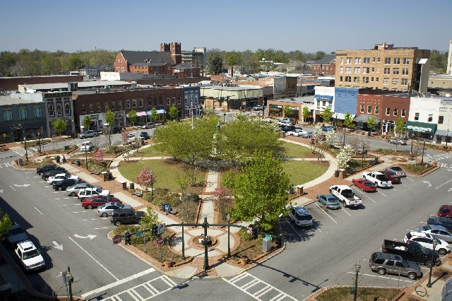 Downtown Gainesville